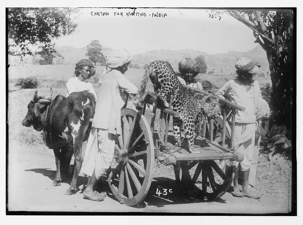 Indian leopard on cart, used for hunting in India